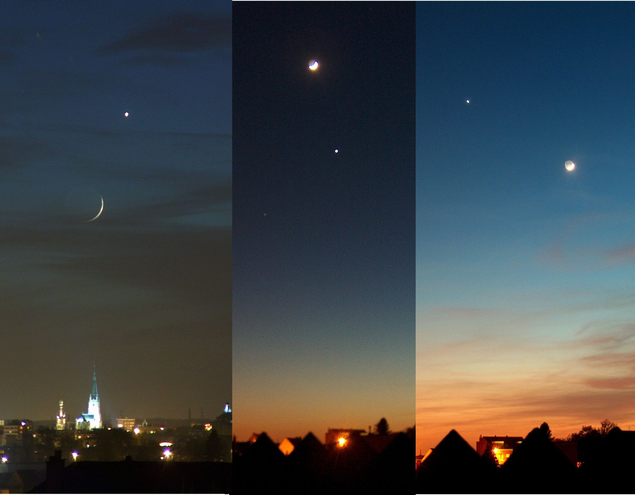 Goddesses Meeting Triptych